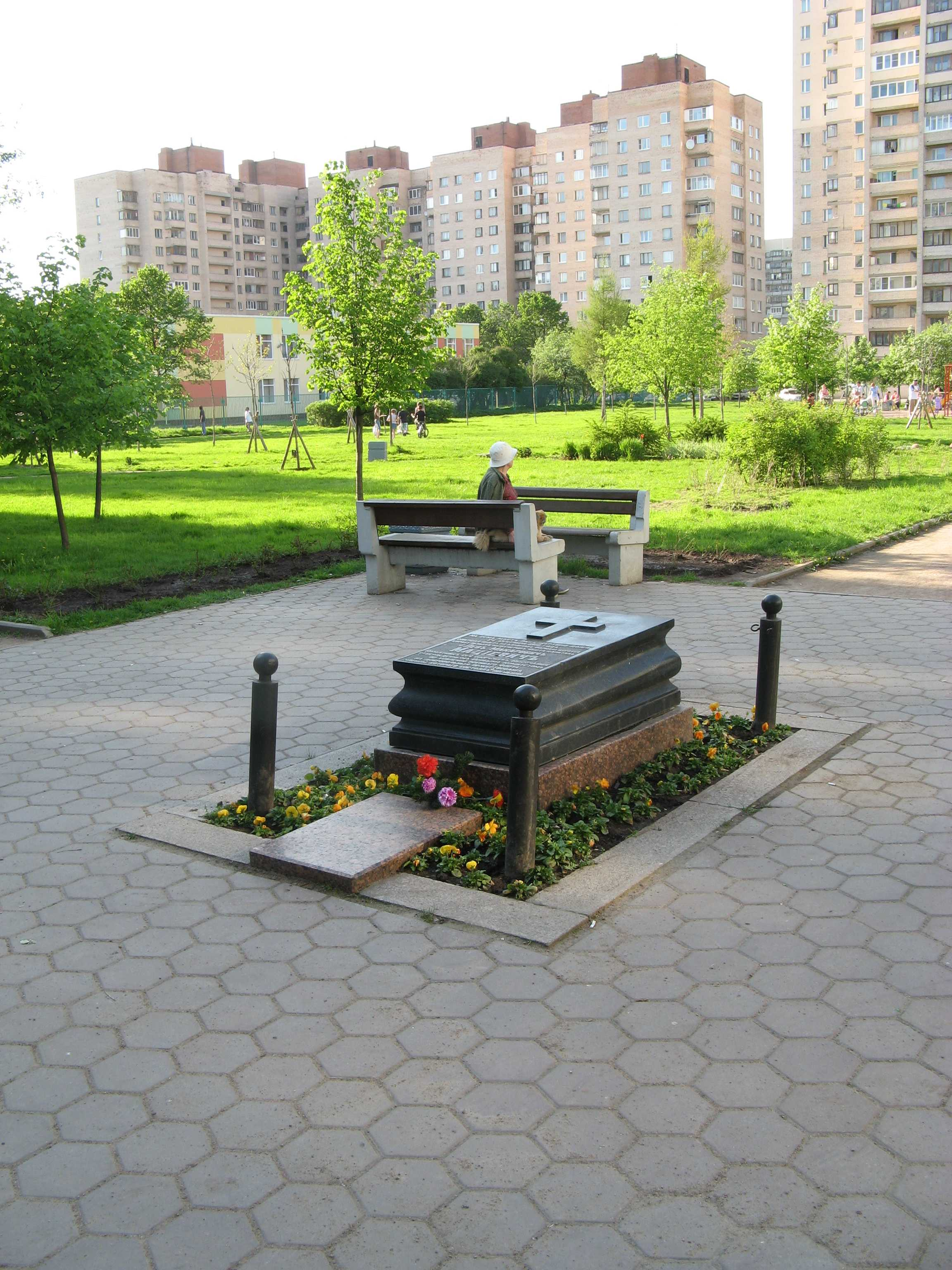 Memorial on the place of death of captain Matsievich, St.Petersburg